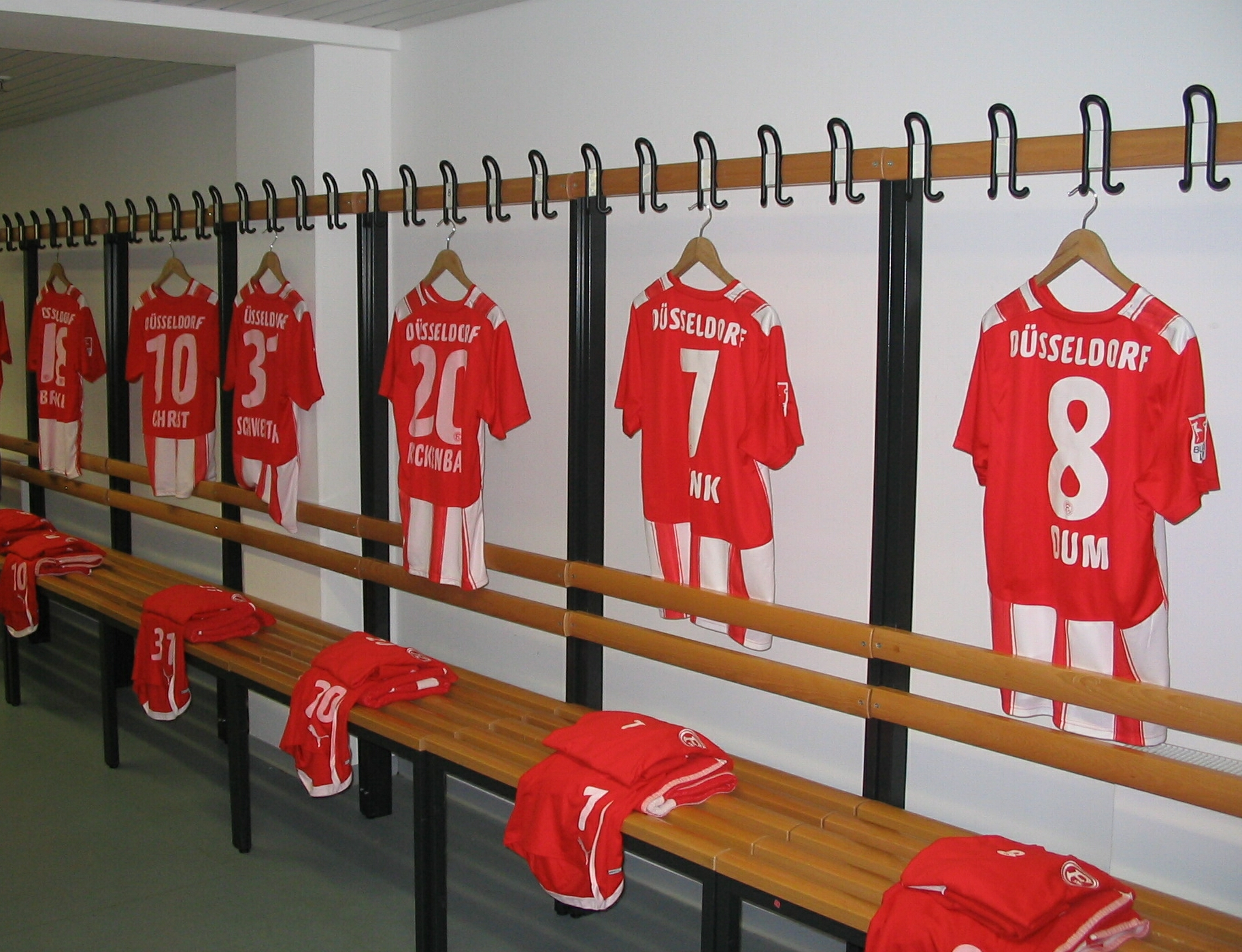 Esprit Arena, Düsseldorf, Fortuna Düsseldorf tricots